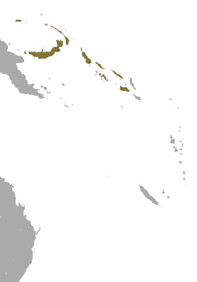 Umboi Tube-nosed Fruit Bat (Nyctimene vizcaccia) range